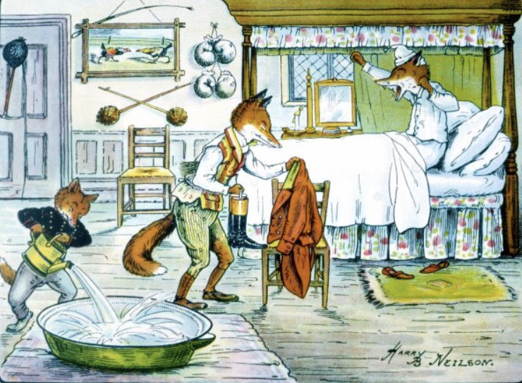 Illustration from book “The Fox’s Frolic” (1917)